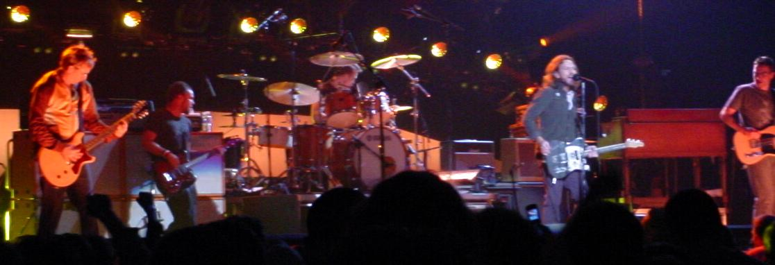 Pearl Jam performing in Toronto, Ontario